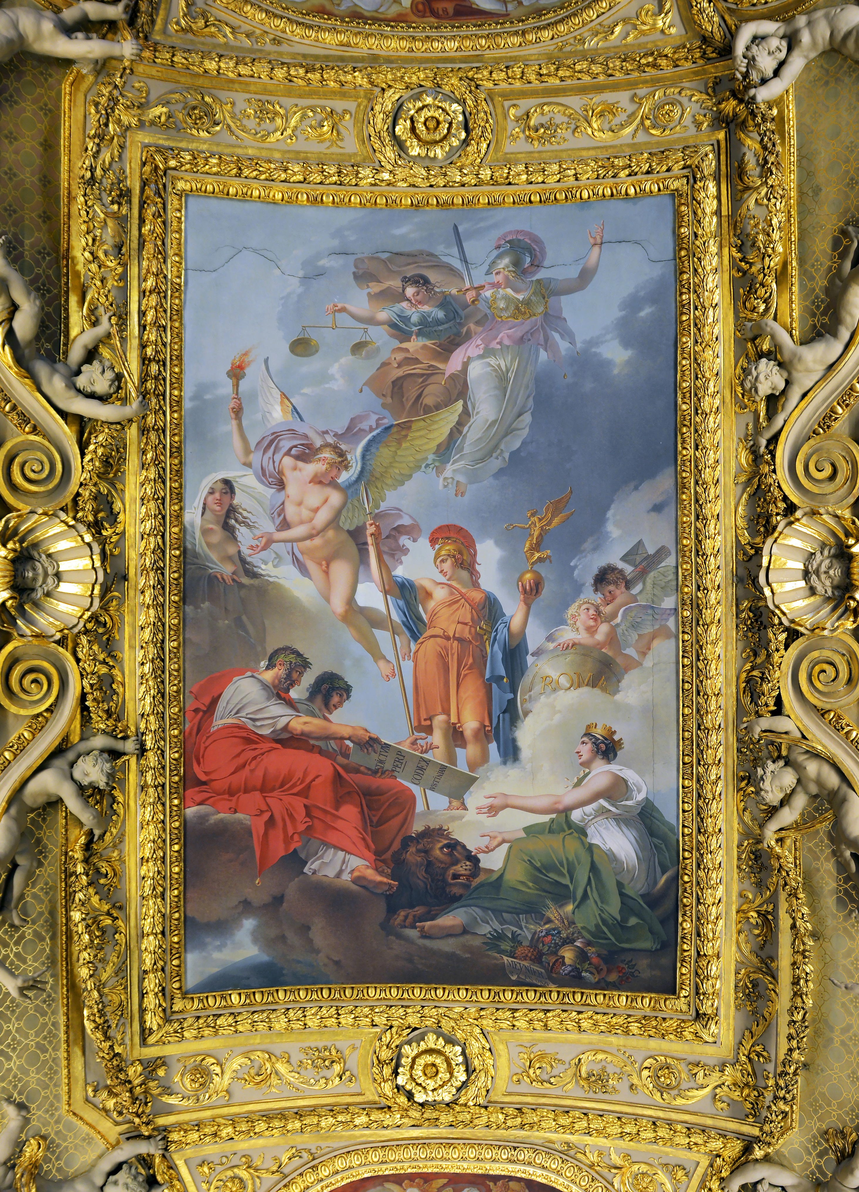 Ceiling of the salon de la Reine (Louvre)